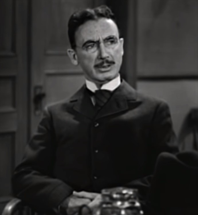 Robert Emmett Keane in Billy the Kid Returns - cropped screenshot